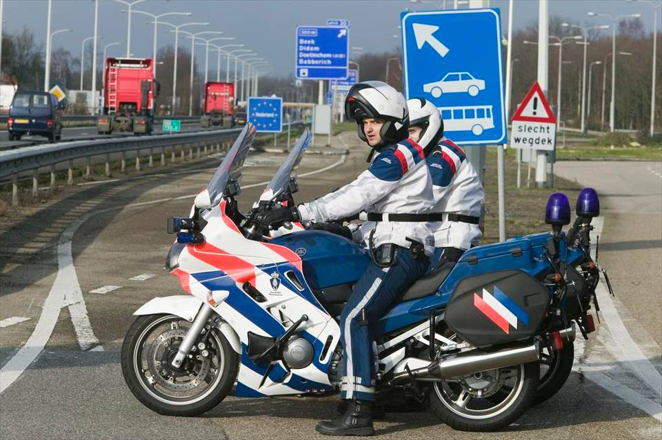 Two motorcyclists of the Royal Marechaussee during the w:2014 Nuclear Security Summit